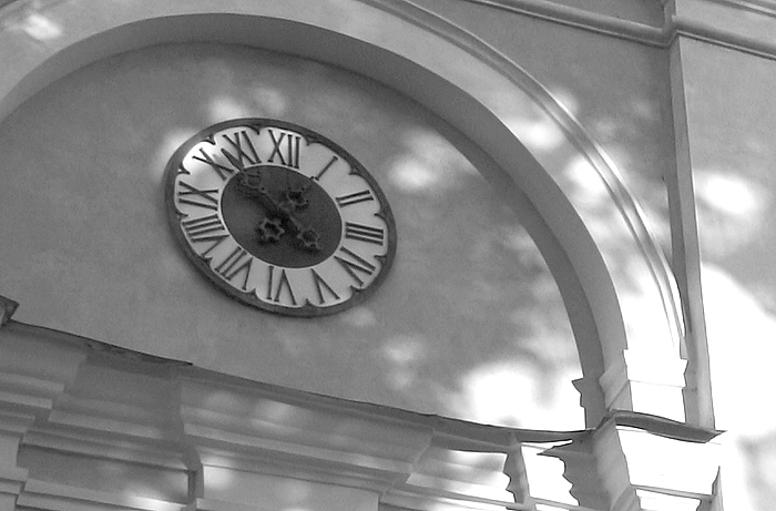 Cathedral Clock